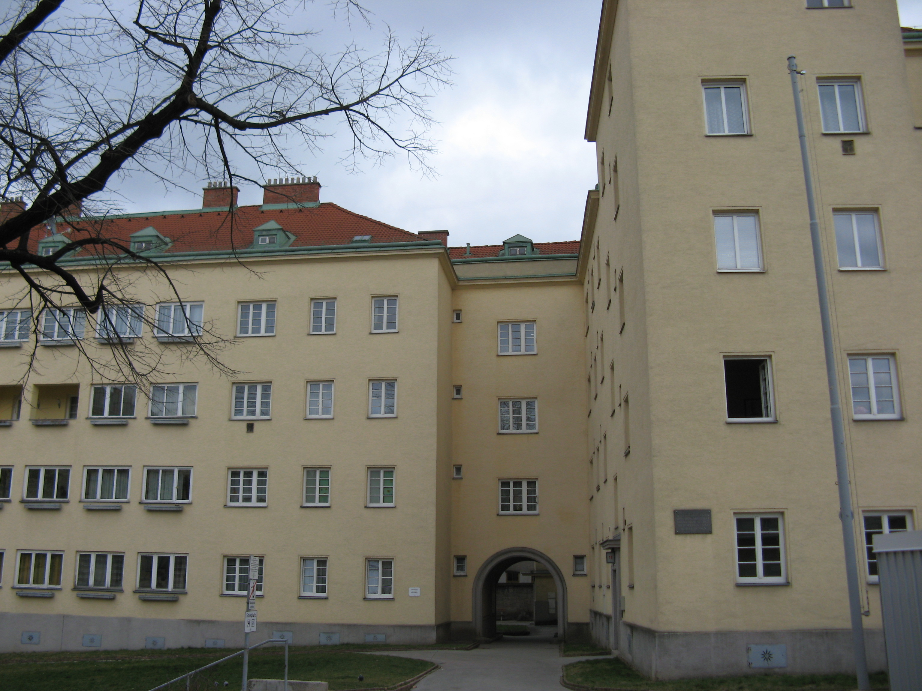 Simonyhof (1927-28) von Leopold Simony in Wien-Meidling